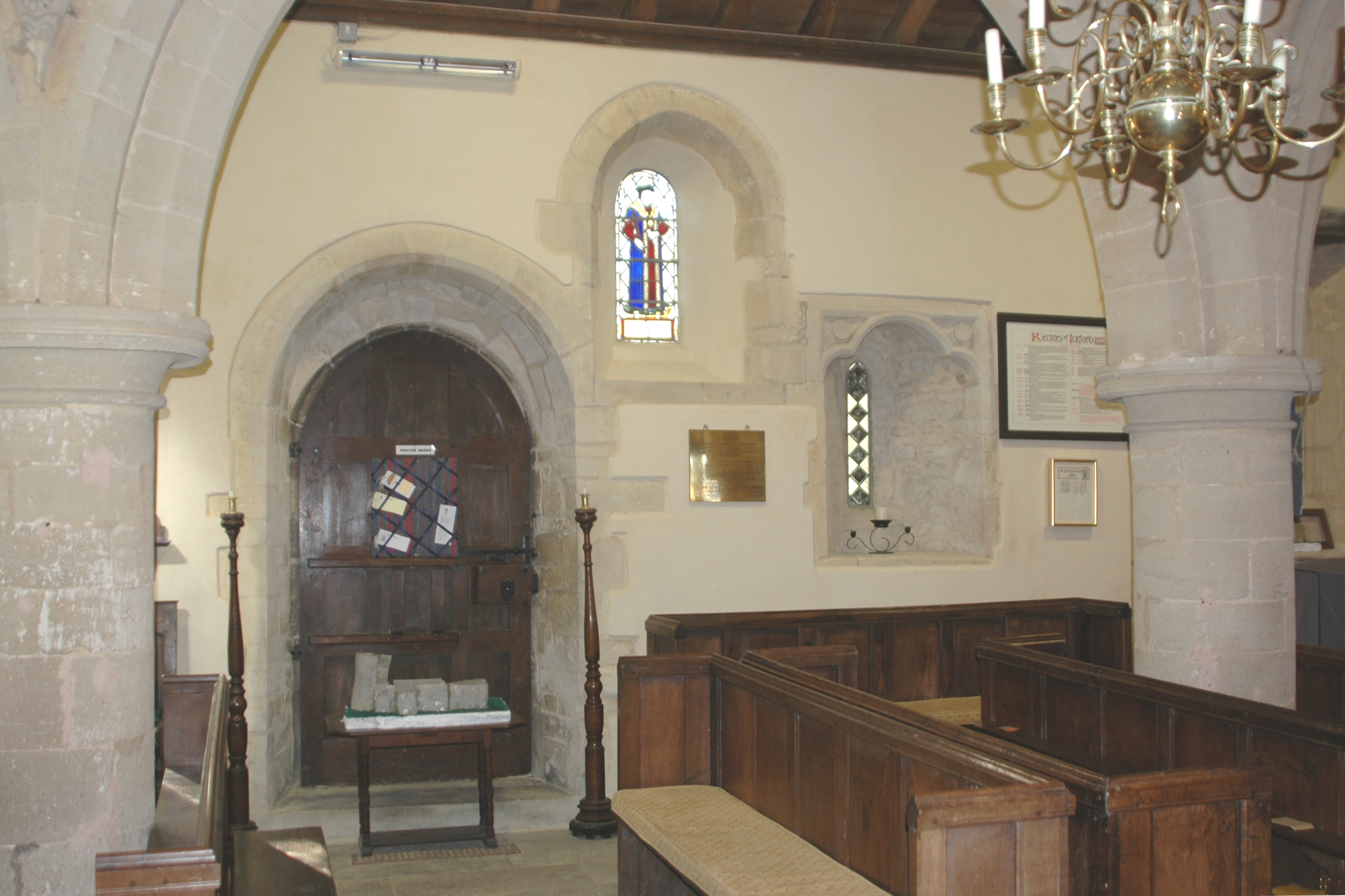 Part of the north aisle of St Nicholas' parish church, Ickford, Buckinghamshire